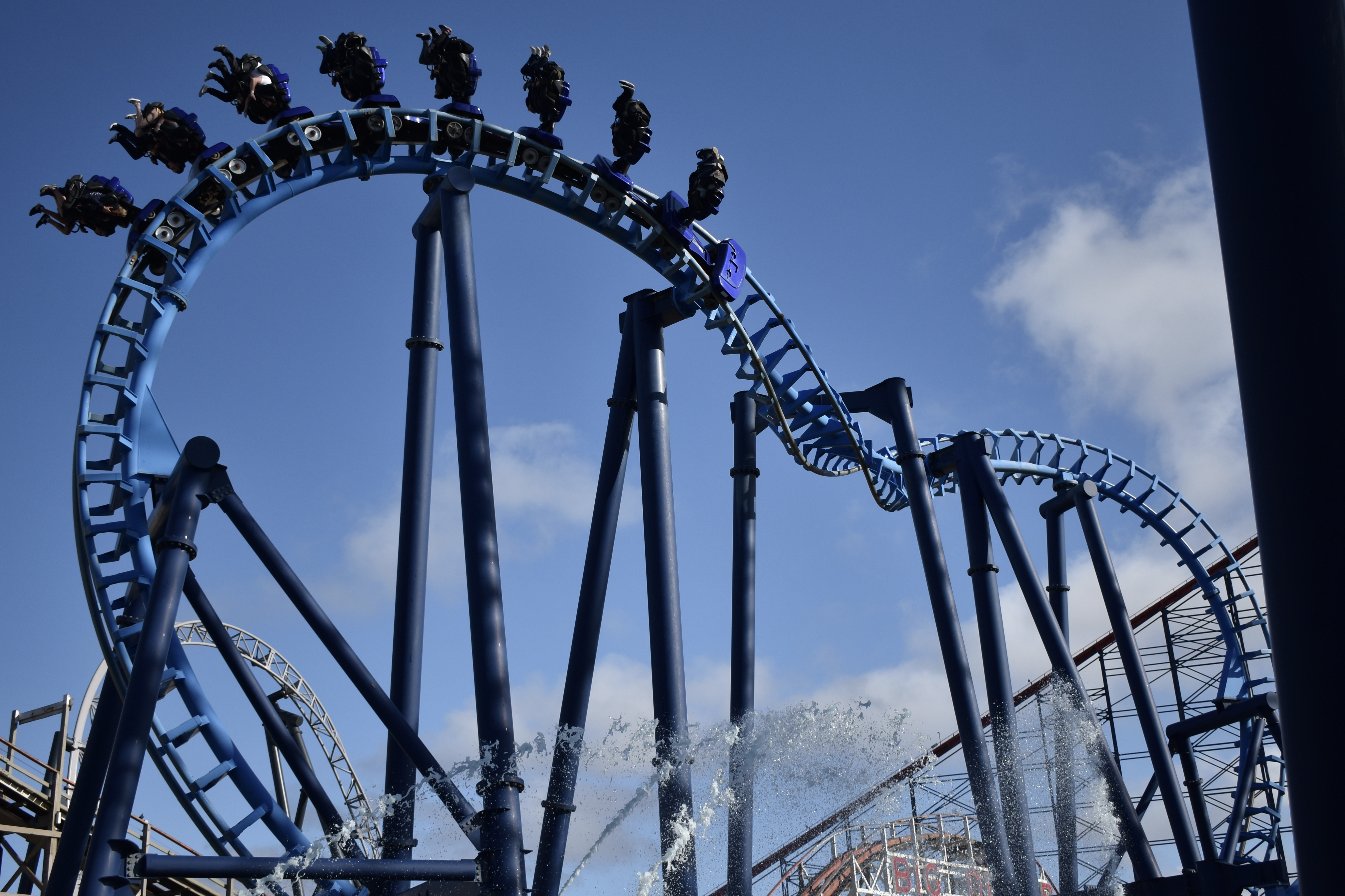 The 'Roll over' Inversion on 'Infusion' at Blackpool Pleasure Beach